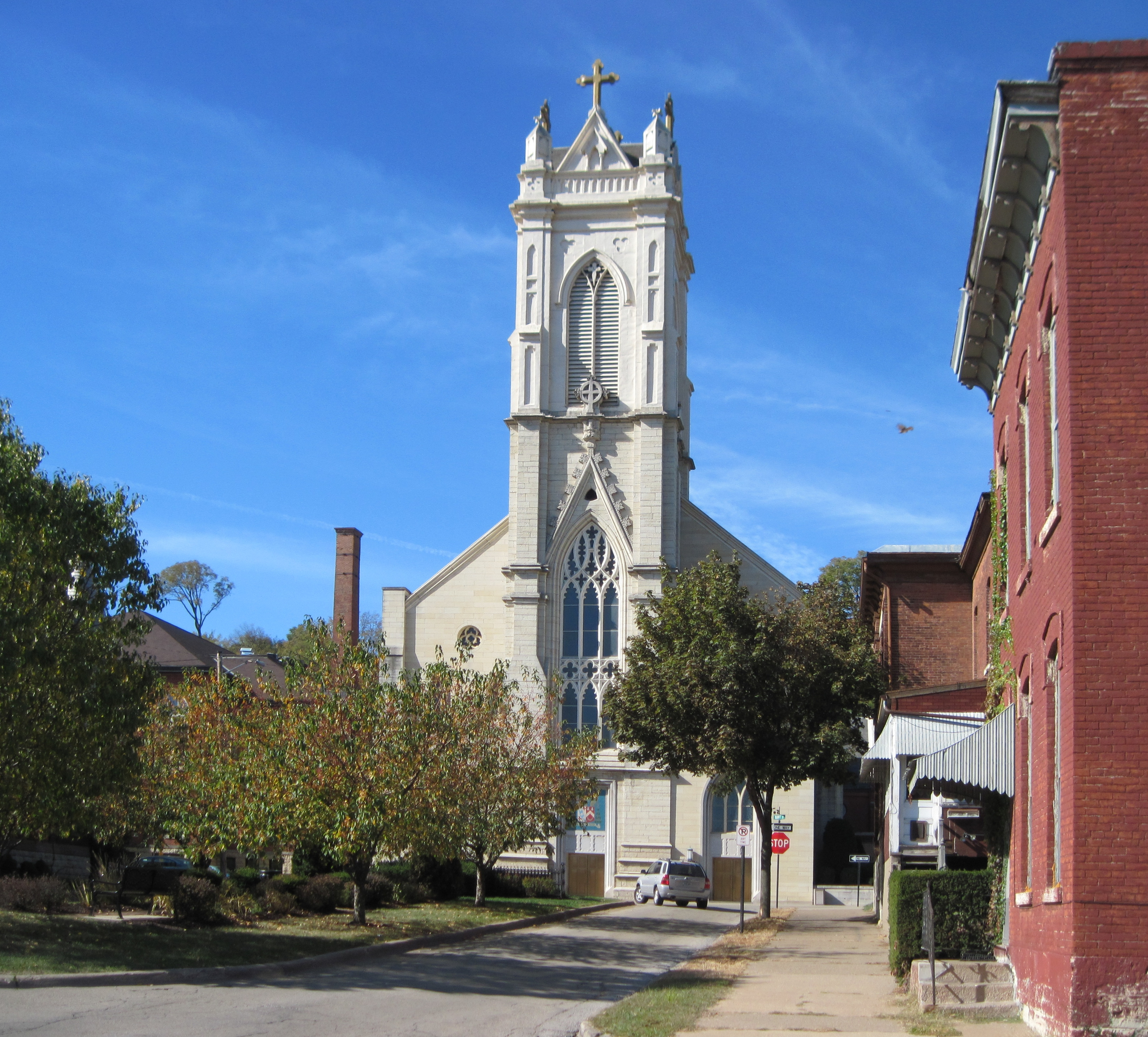 Façade of St Raphael's Cathedral in Dubuque's Cathedral Historic District.